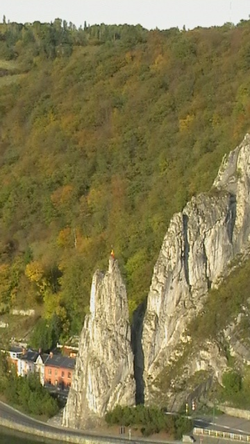 Dinant : Bayard rock: Bayard, legend horse with the four suns of Duke Aymon, would have jumped over Meuse river from there, subsequently splitting the rock Walon: Li Rotchî Bayåd a Dinant. Li tchvå Bayåd åreut potchî Mouze did la, avou les Cwate fis Aimon so s' dos, et l' rotche end a dmoré findowe.